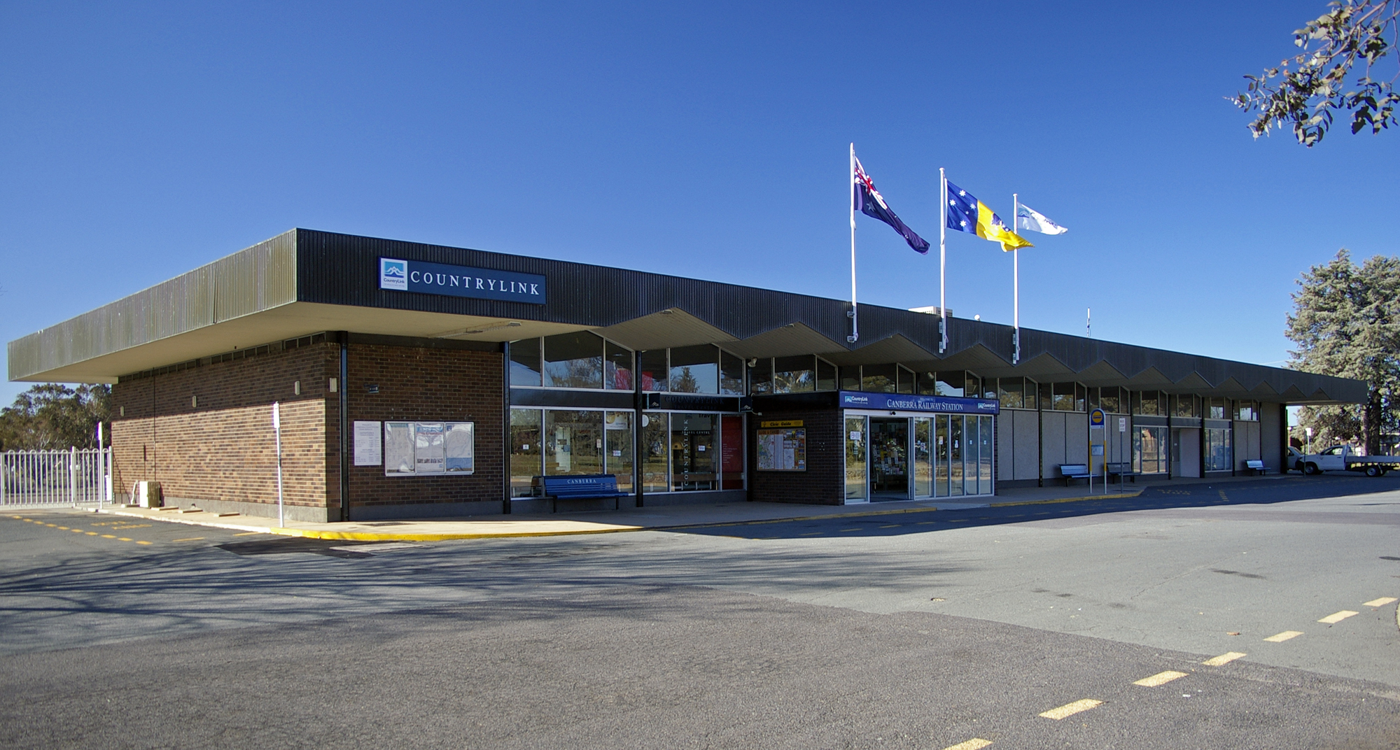 Canberra railway stationKingston.